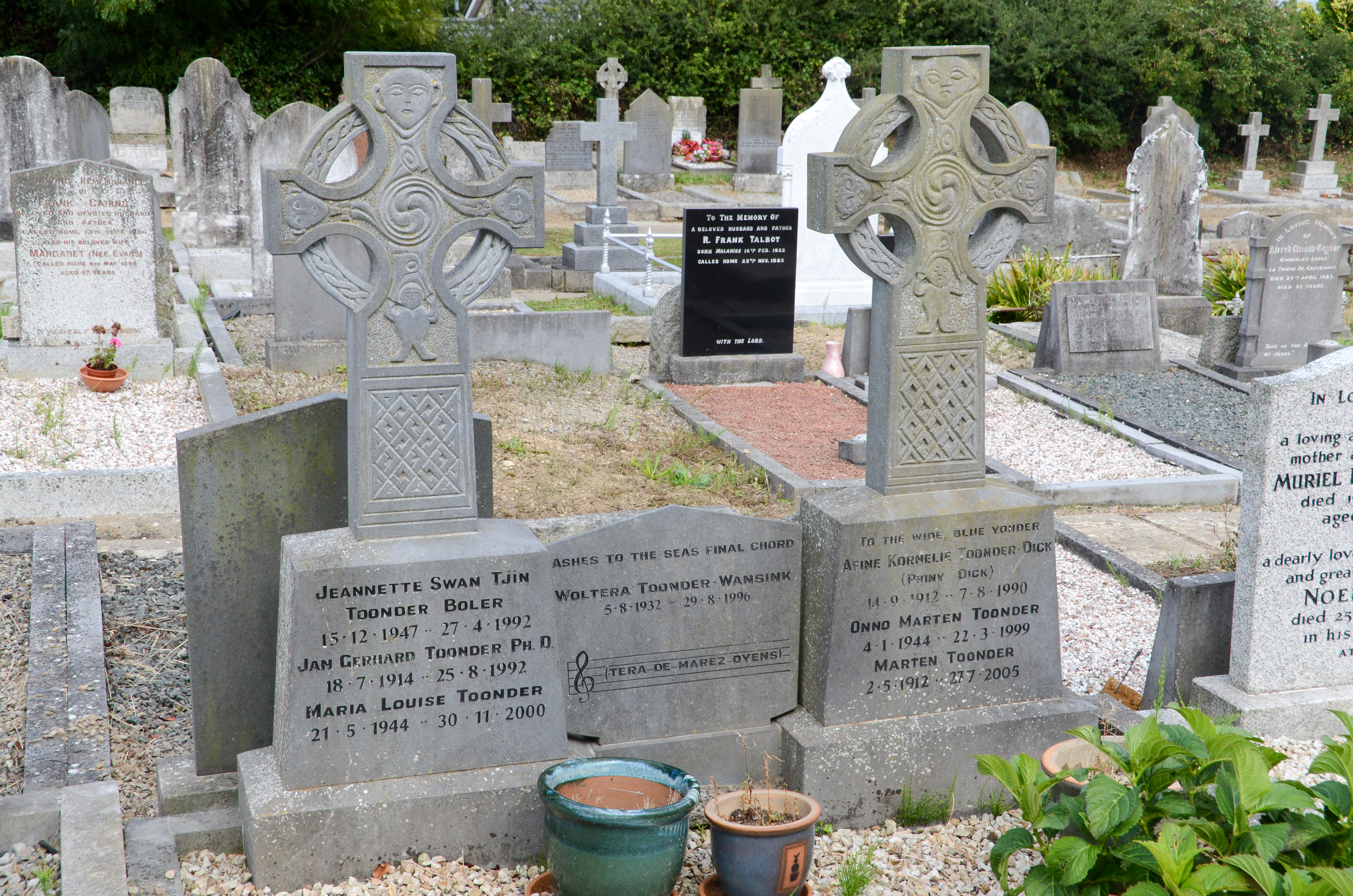 Gravestone with the names Marten Toonder, Jan Gerhard Toonder, Phiny Dick, Onno Marten Toonder, Maria Louise Toonder, Jeannette Swan Tjin Toonder Boler, Tera de Marez Oyens. The grave is in the cemetery at "The Grove" in Redford district, in Greystones (the smaller of two cemeteries, north of the larger cemetery, both are called Redford Cemetery).